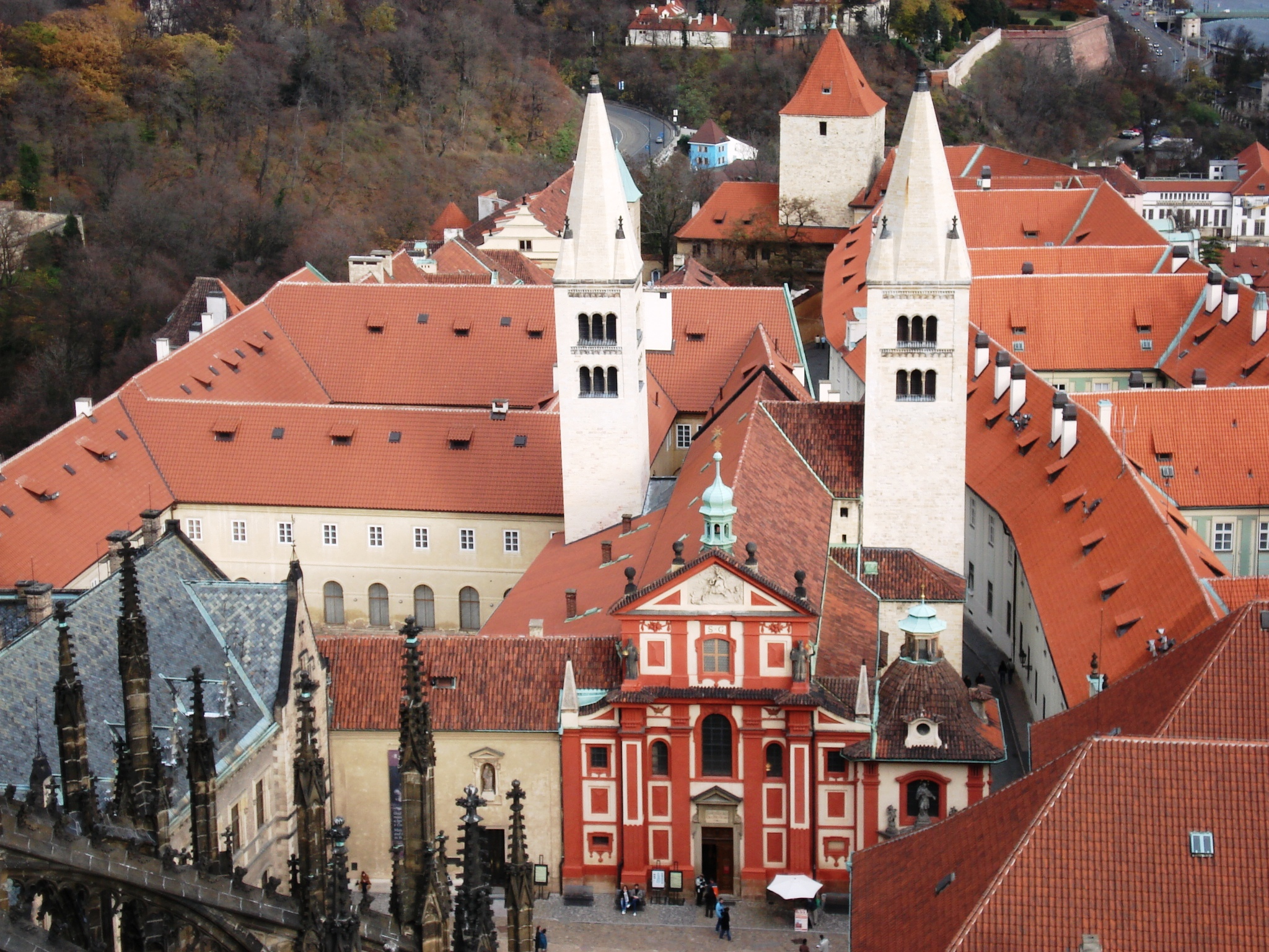 Church and monastery of St George, Prague Castle. It houses the Baroque and manierist collections of the National Gallery